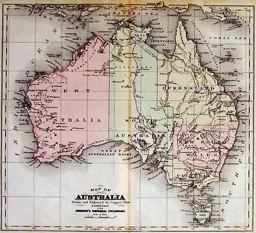 Map of Australia originally published in "Johnson's New Universal Cyclopedia" in 1881. The maps within were drawn and compiled by Frederick Barnard and Arnold Guyot for this publication. These smaller format maps were hand-coloured and were produced using copper plates. The fine detail of this map shows territories, cities and towns, rivers, lakes and oceans, roads, mountain ranges, and the existing railroad network.